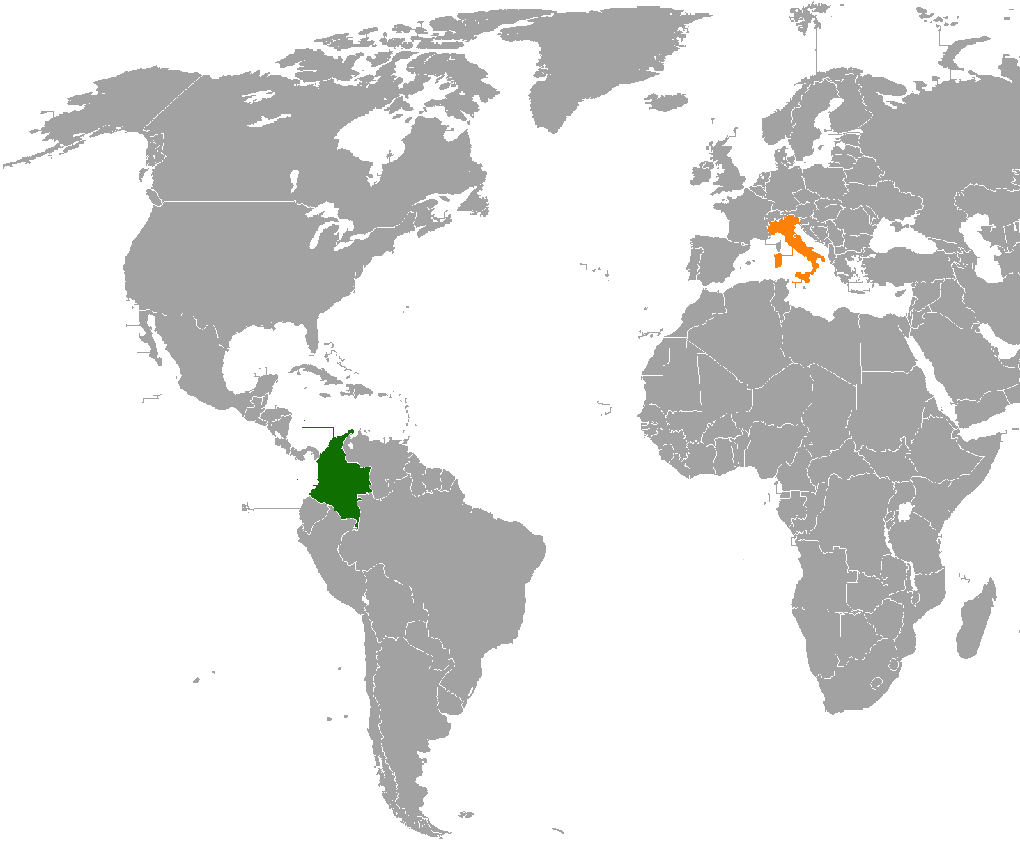 Colombia-Italy locator map. I made this map out of a licence free blank map of the world.